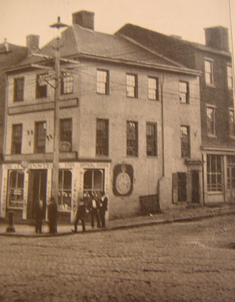 The Southern Literary Messenger Building in Richmond, Virginia -- Edgar Poe's place of employment from December 1836 to 1837. The back building adjoining was occupied by Allan & Ellis, tobacconists, the firm in which Poe's foster-father was senior partner. This image shows the building in 1902, converted into watch shop.